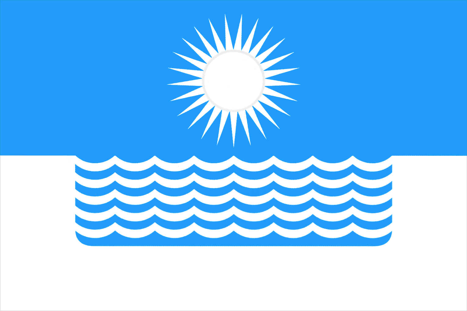 Gelendzhik (Krasnodar krai), flag